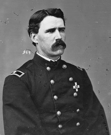 Brevet Major General Martin Thomas McMahon, United States Army